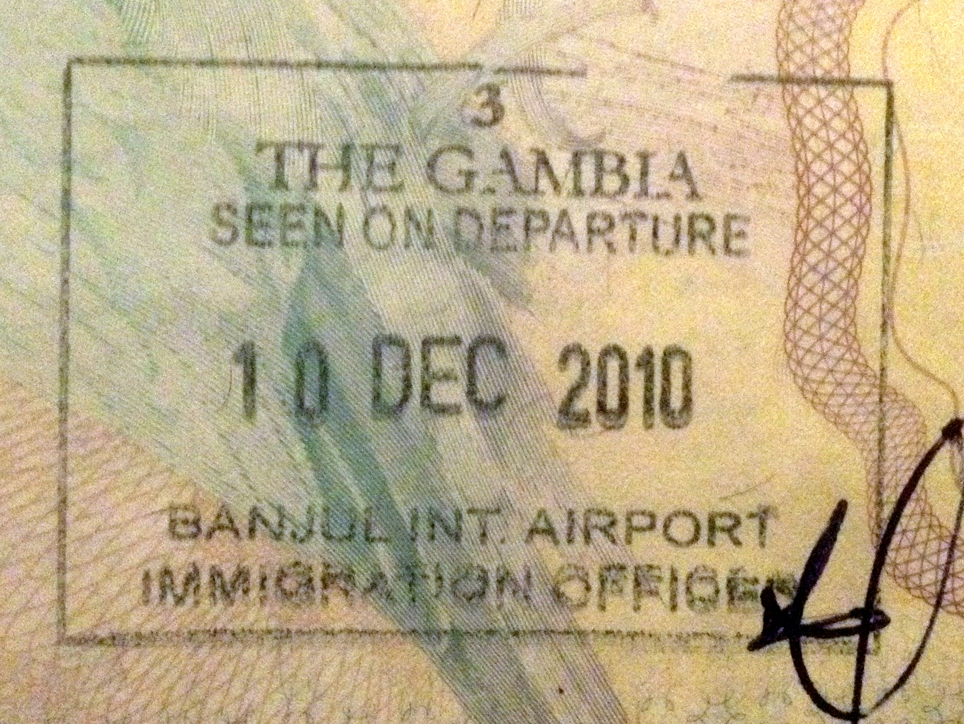 exit stamp from gambia